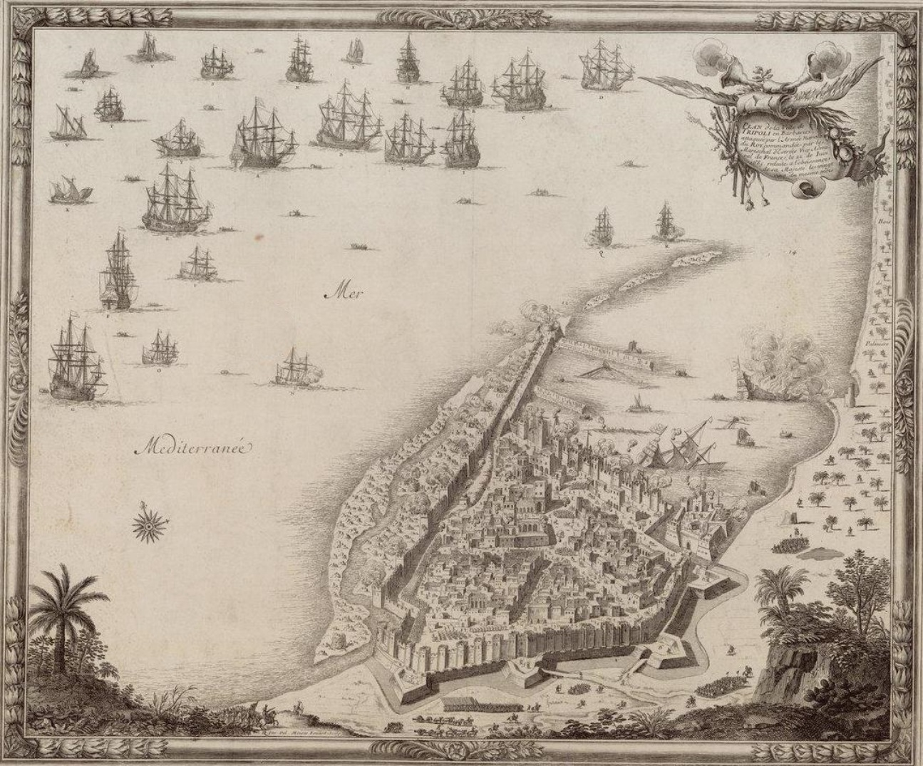 Bombing of Tripoli in 1685 by a French squadron.